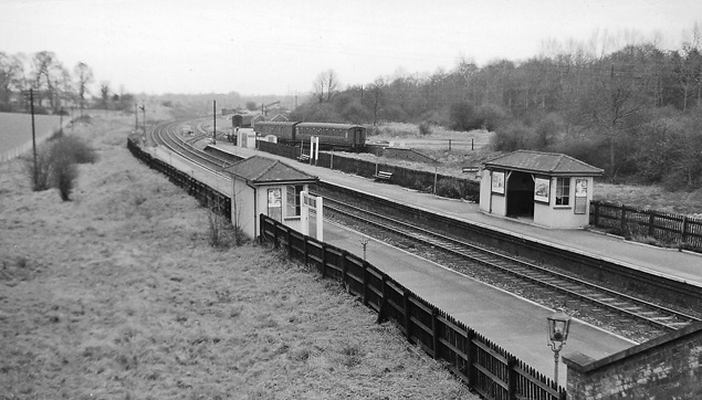 Bayford Station. View northward, towards Hertford North; Wood Green (Alexandra Palace) - Hertford North - Stevenage Loop line.